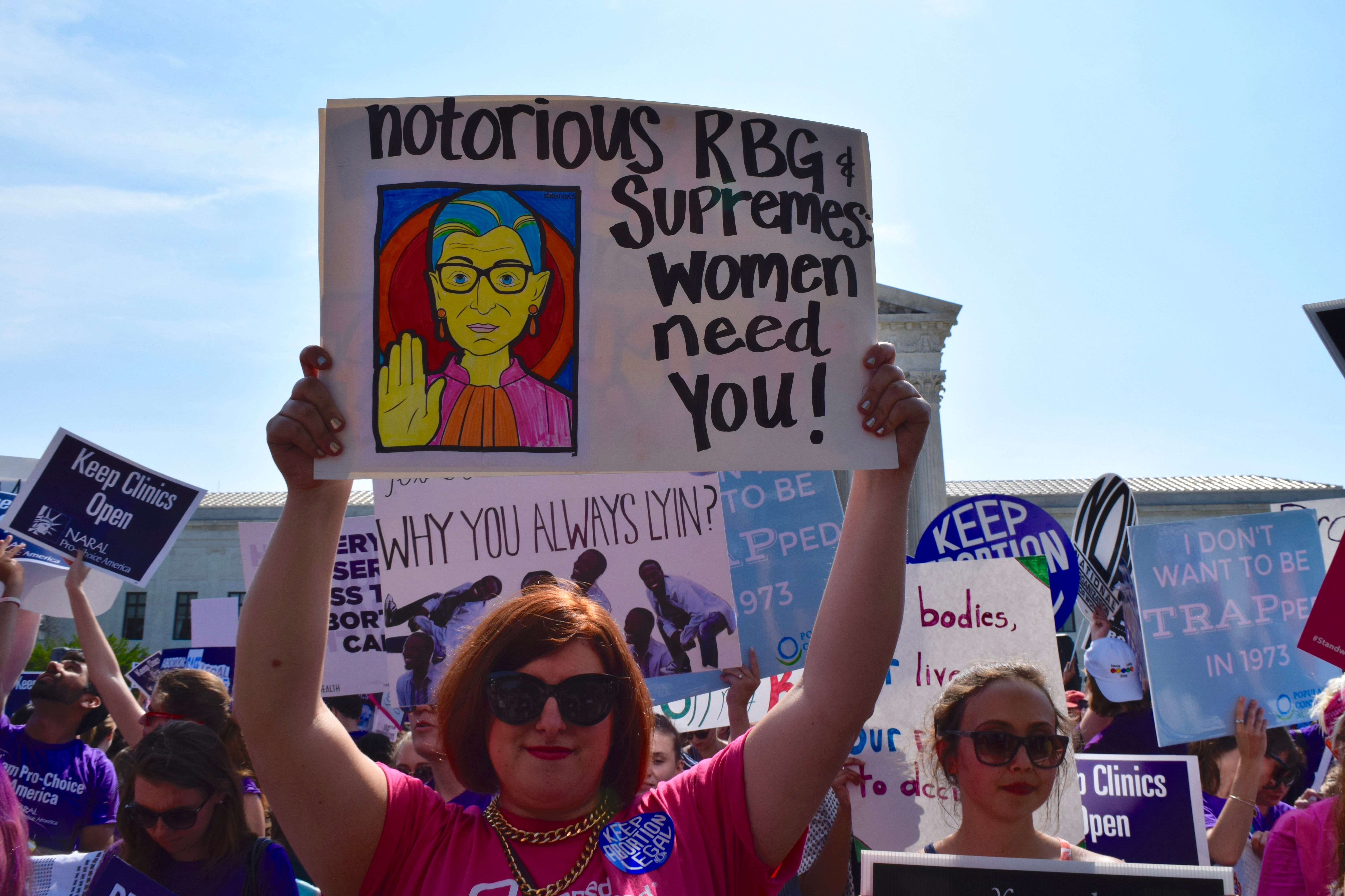 Whole Woman's Health v. Hellerstedt Pro-choice demonstration in front of SCOTUS.